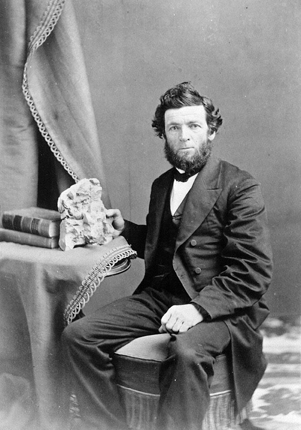 Thomas Condon (1822-1907), minister, missionary, self-taught geologist and paleonthologist discovered the importance of Oregons fossil beds, particularly in todays John Day Fossil Beds National Monument